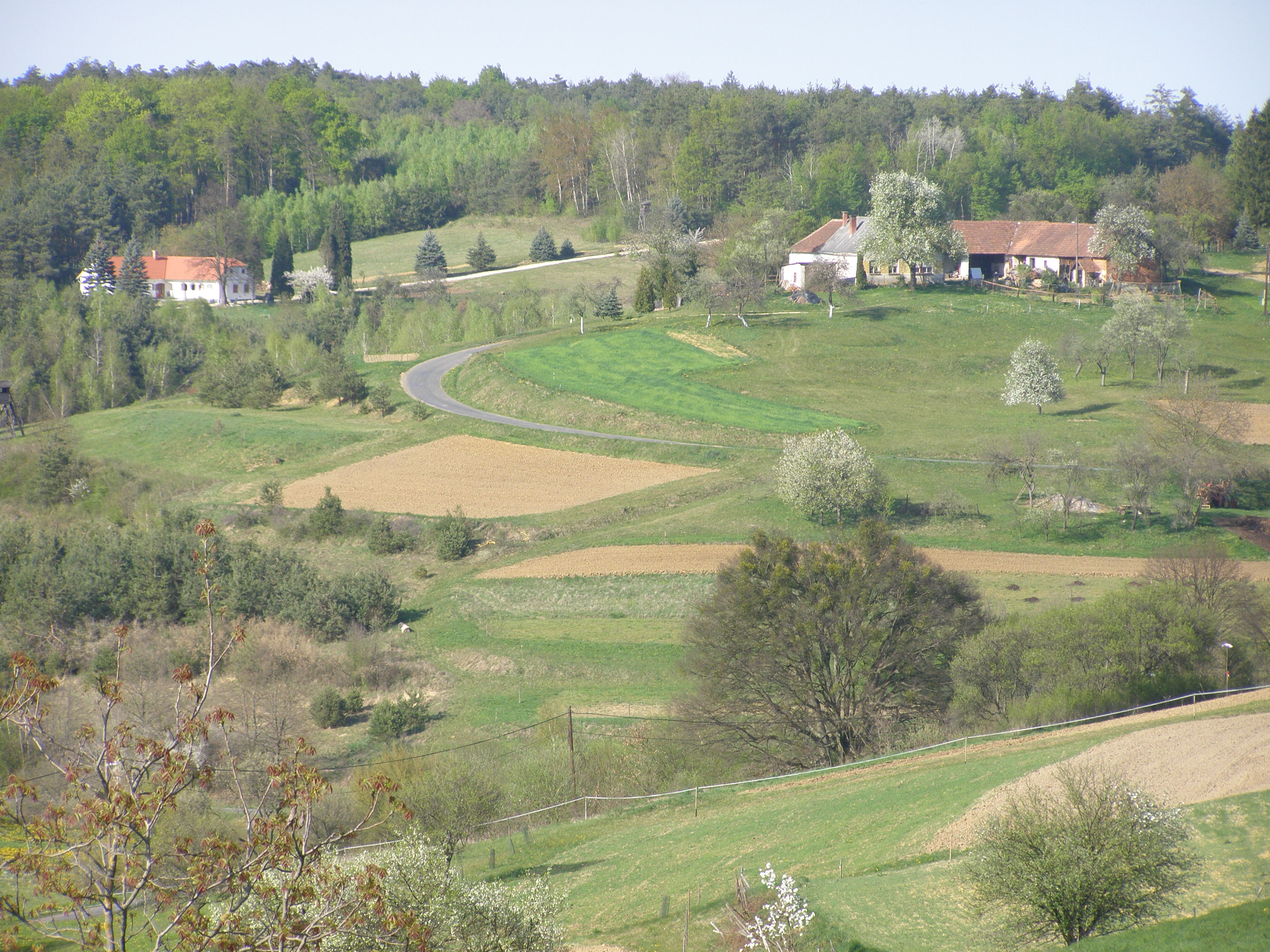 The house Borovnjákini (sometime Borovnyák family) and Batjimi (Merkli family) in Kétvölgy (Permise)